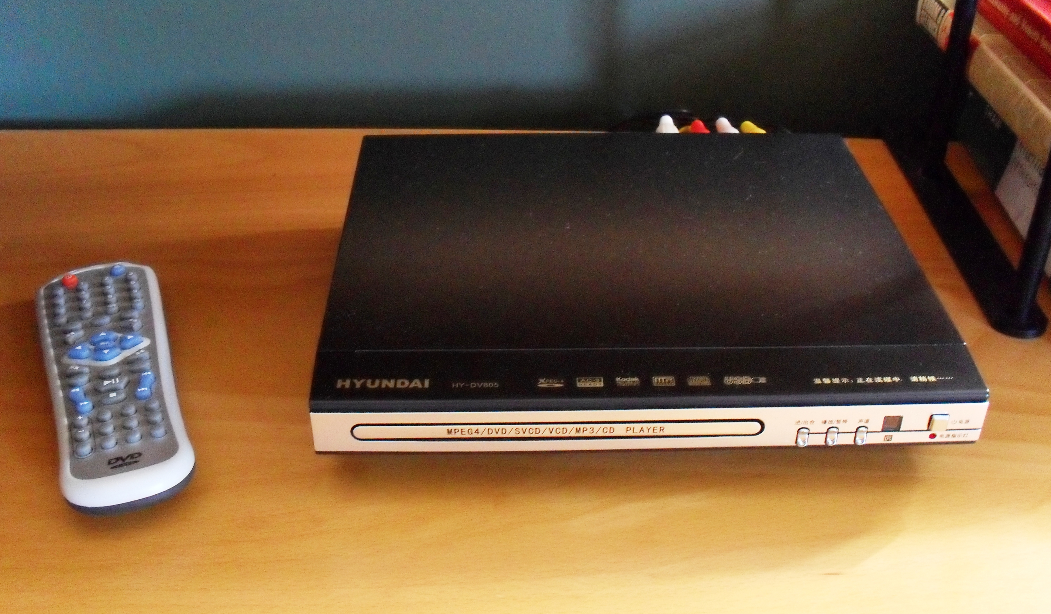 Hyundai DVD player HY-DV805.